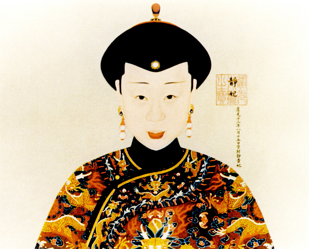 静妃肖像 - 《清史图典》 by the Palace Museum Publishing House Scanned and cropped and editted by myself